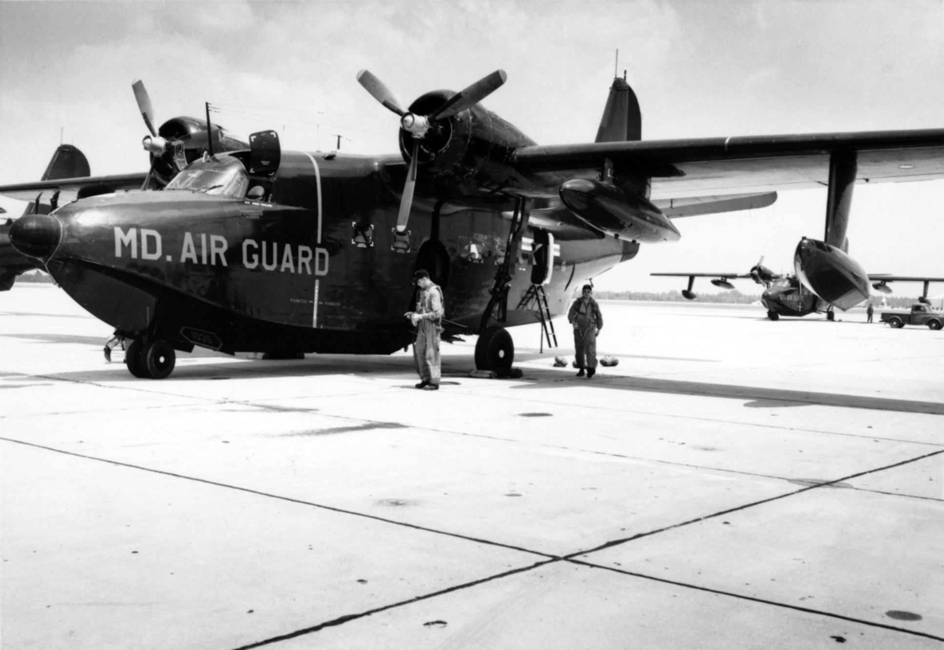 U.S. Air Force aircrew assigned to the Maryland Air National Guard's 135th Air Commando Squadron prepare an Grumman HU-16B Albatross (S/n 51-035) for flight. The aircraft is painted black to facilitate covert night operations. The Maryland Air National Guard was equipped with HU-16s from 1956 to 1971. The HU-16B 51-035 was later sold to Italy (s/n MM51-035, coded 15-8) and is today preserved at Gorizia, Italy.